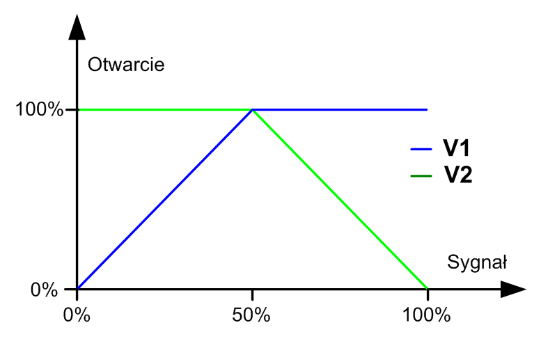 Split range control diagram for heat exchanger